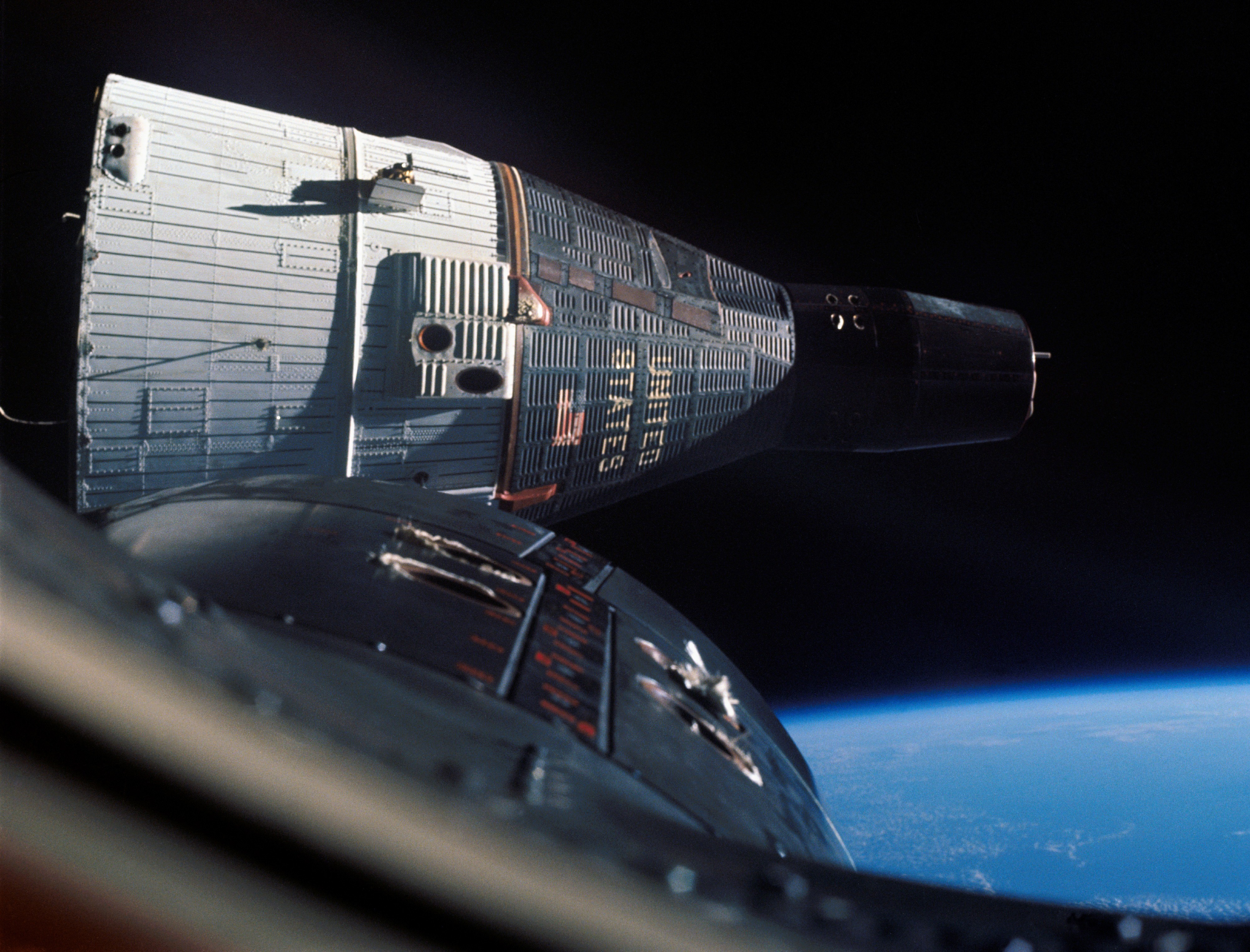 This photograph of the Gemini 7 spacecraft was taken from Gemini 6 during rendezvous and station keeping maneuvers at an altitude of approximately 160 miles above the Earth. Gemini 6 and Gemini 7 launched on December 15, 1965 and December 4, 1965, respectively. Walter M. Schirra, Jr. and Thomas P. Stafford on Gemini 6 and Frank Borman and James A. Lovell on Gemini 7 practiced rendezvous and station keeping together for one day in orbit.